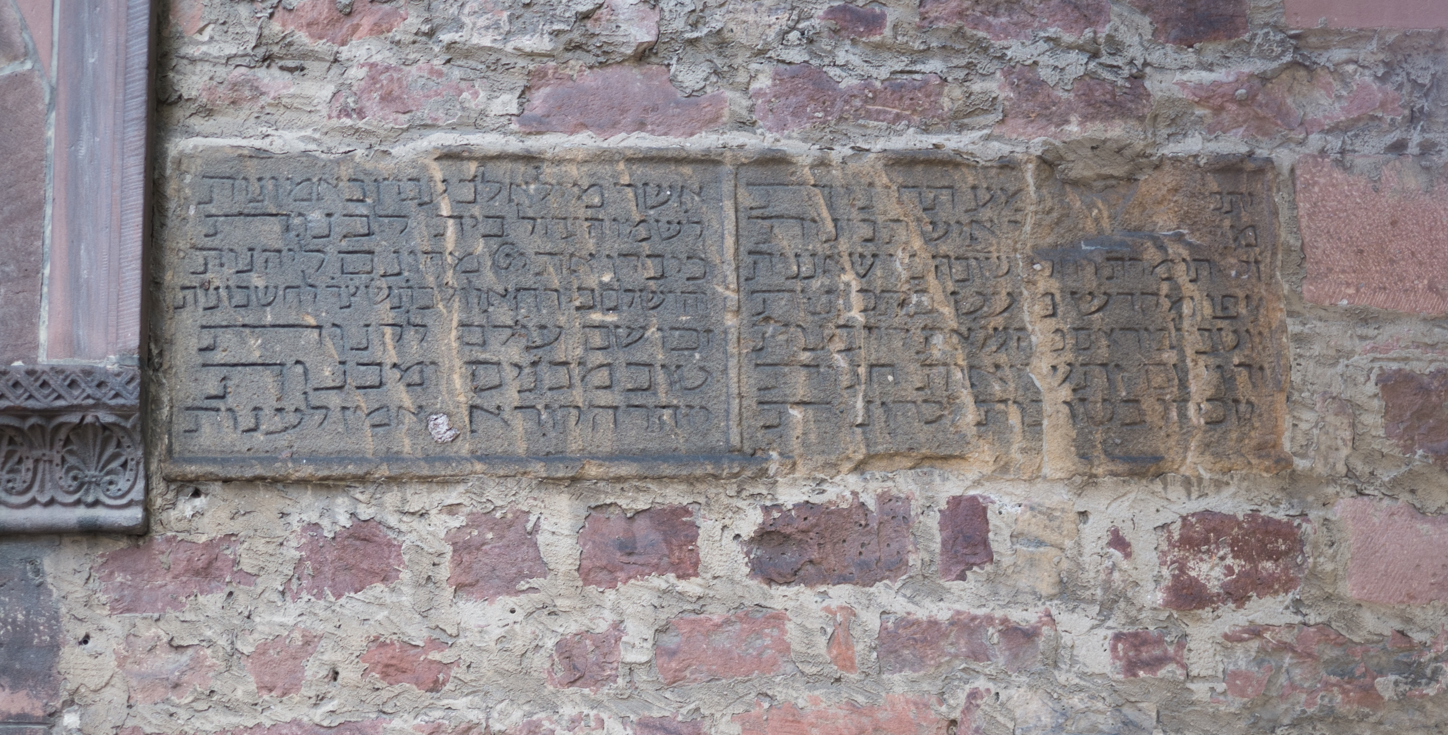 Synagogue Worms, Rhineland-Palatinate, Germany